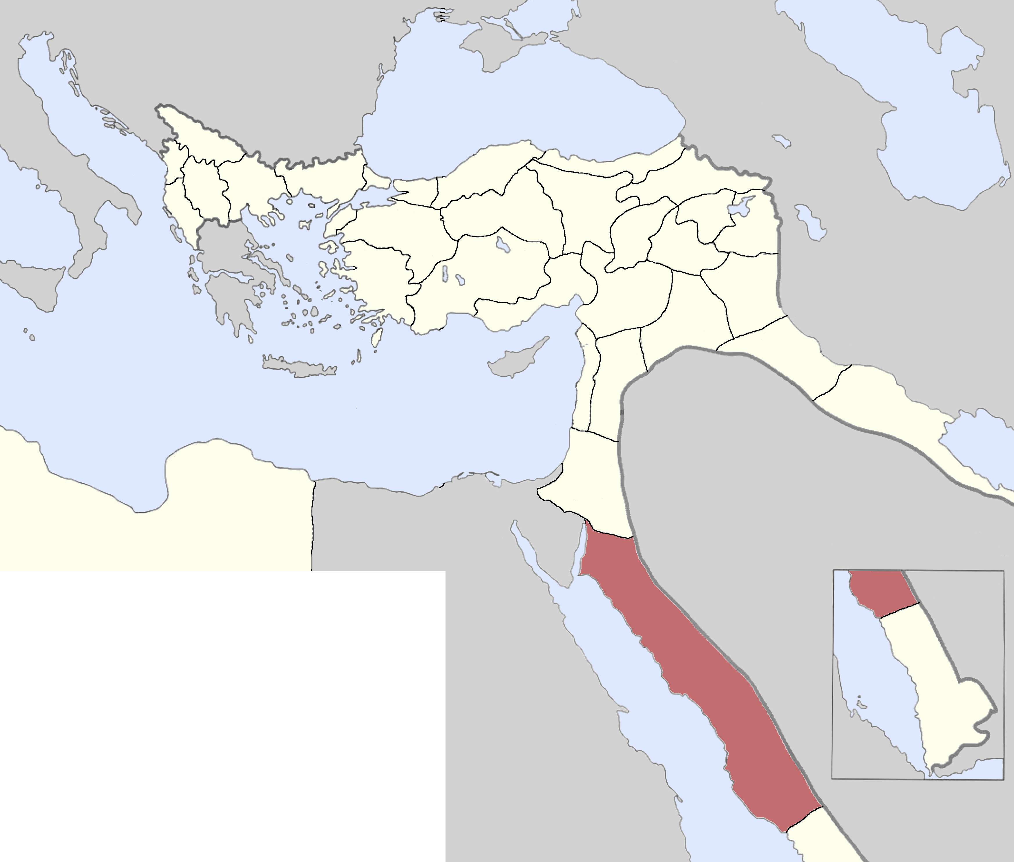 XY Vilayet, Ottoman Empire (1900). Source: Empire, Islam, and Politics of Difference: Ottoman Rule in Yemen, 1849-1919 at Google Books By Thomas Kuehn